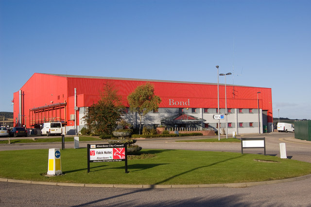 Bond main hangar Aberdeen Airport is said to be the world's busiest heliport, with about 100 flights per day serving North Sea oil installations. Here we see the main hangar of Bond Offshore Helicopters.